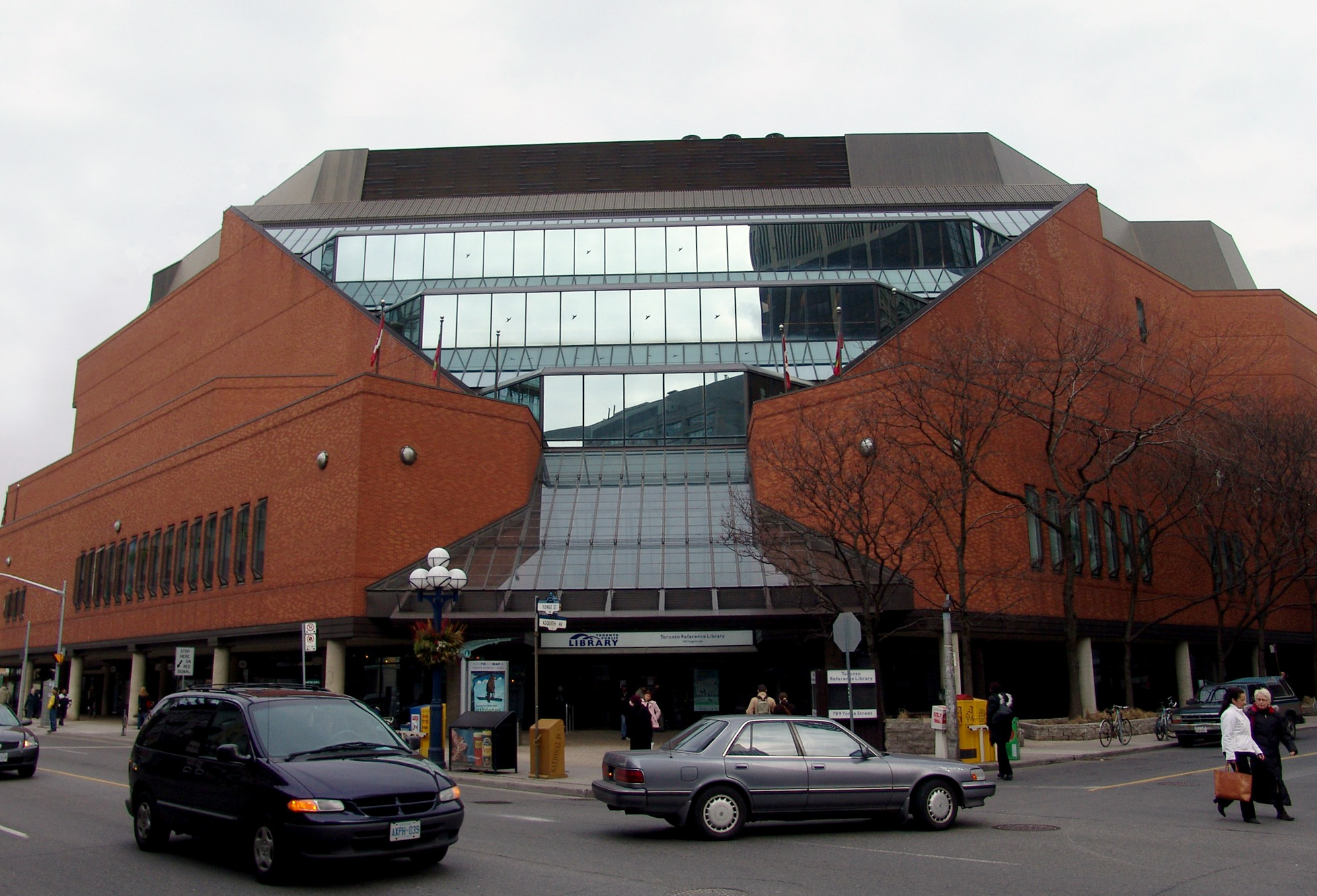 The front entrance and exterior of the Toronto Reference Library in Toronto, Ontario.